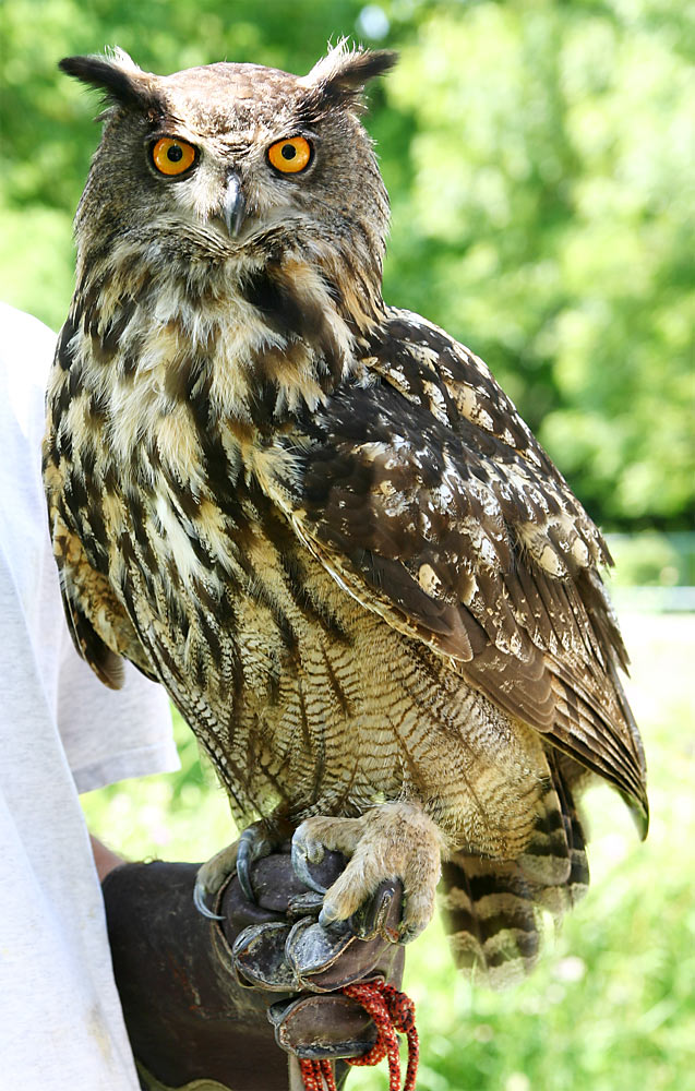 eagle owl